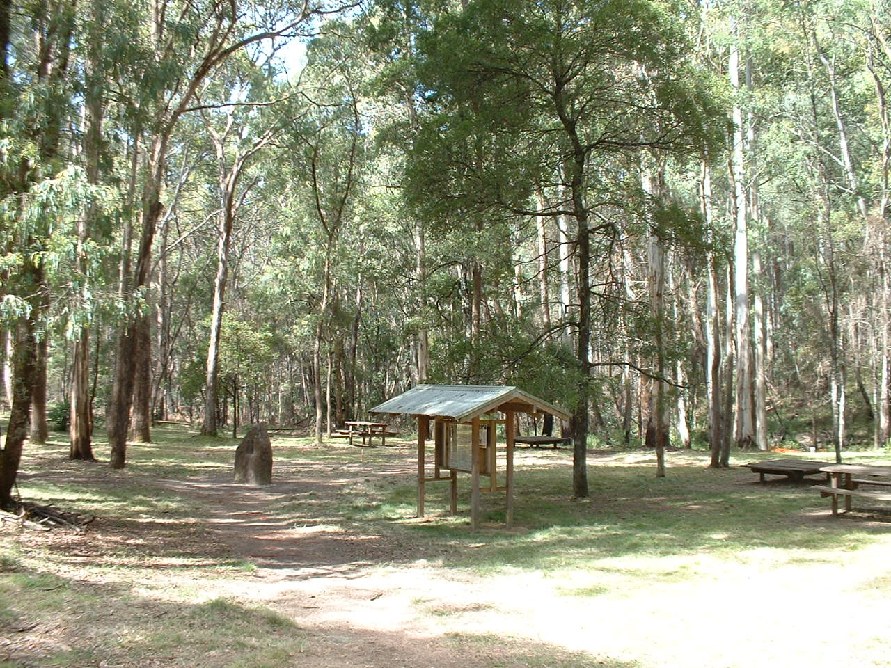 View of Stringbark Creek, Victoria, Australia, site of the murder of three policemen by the Kelly Gang, in 1878.